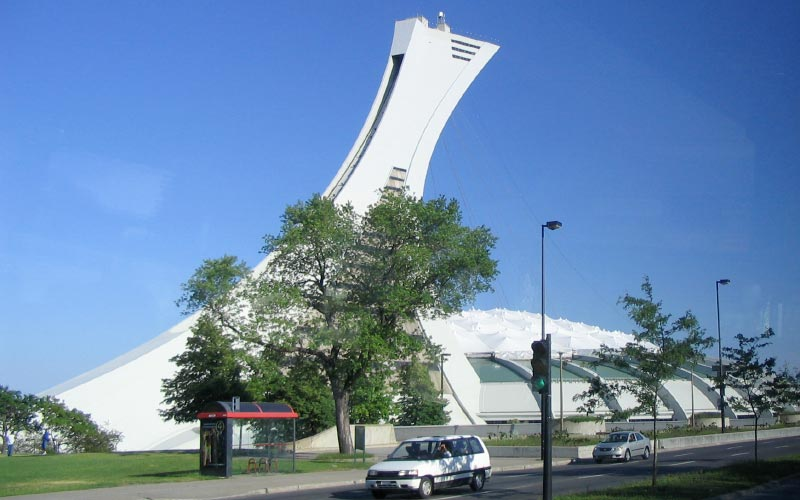 Montreal 1976 Olympic Stadium